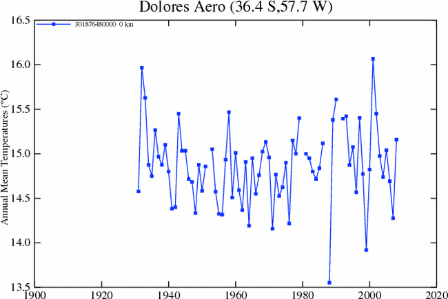 Climate graph of 1931 2008 air average temperaturas at city of Dolores, Buenos Aires province, Argentina